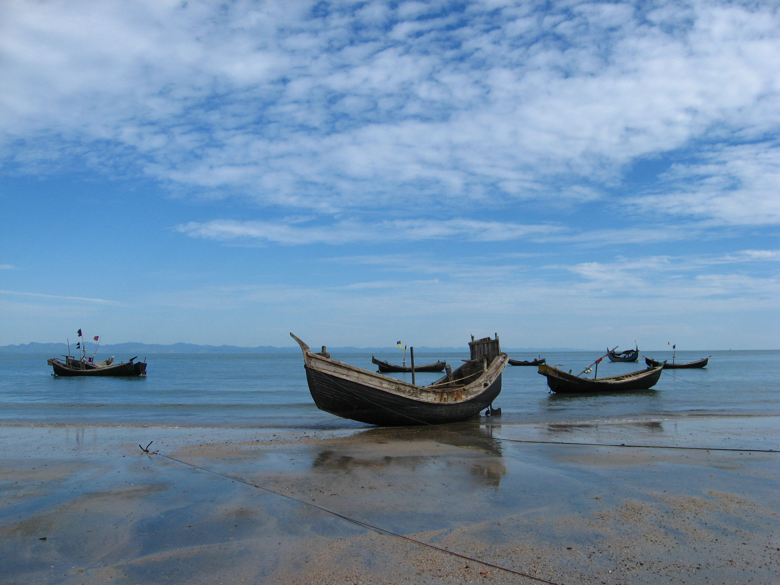 Saint Martin's Island, Bangladesh